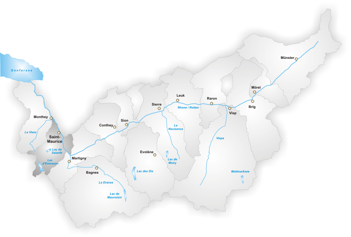 District Saint-Maurice